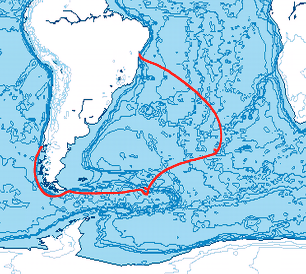 The sailing route of Anthony de la Roché, April 1675. Map created with this online map creation tool.